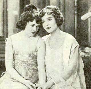 Still from the American film Lying Lips (1921) with Margaret Livingston and Florence Vidor, page 1 of the January 8, 1921 Film Daily. In this scene, on the eve of her marriage to a man she never could love, Nancy Abbott's (Vidor) thoughts go back to another man, the mate of her soul, whom she left to die on a raft lost at sea, so that she could claim the wealth her fiance can give her